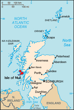 Map of Scotland indicating the Isle of Arran.